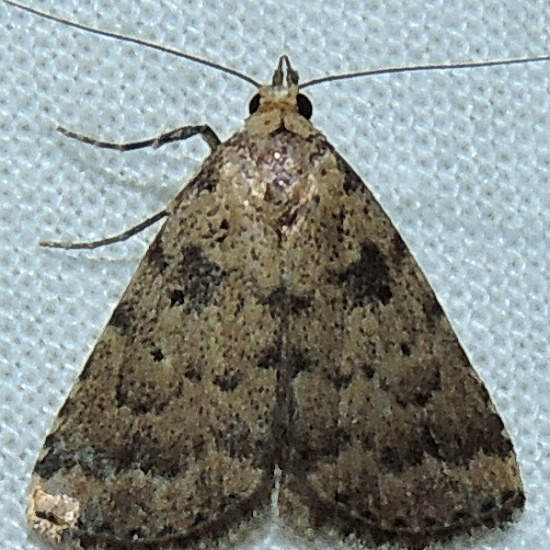 8/23/13 Franklin County Photo and ID thanks to Jack Foreman